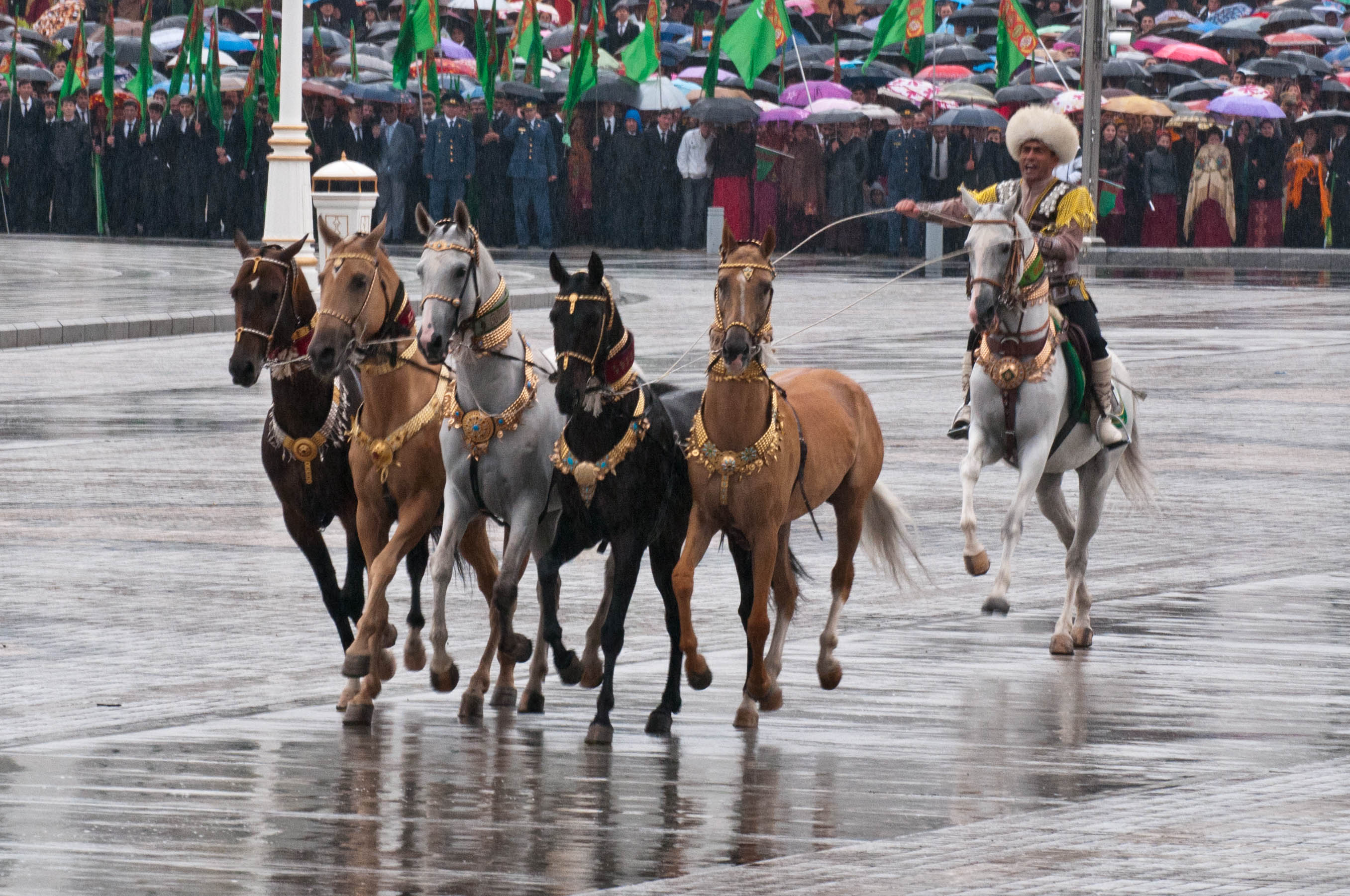 Celebrating the 20th year of independence in Turkmenistan